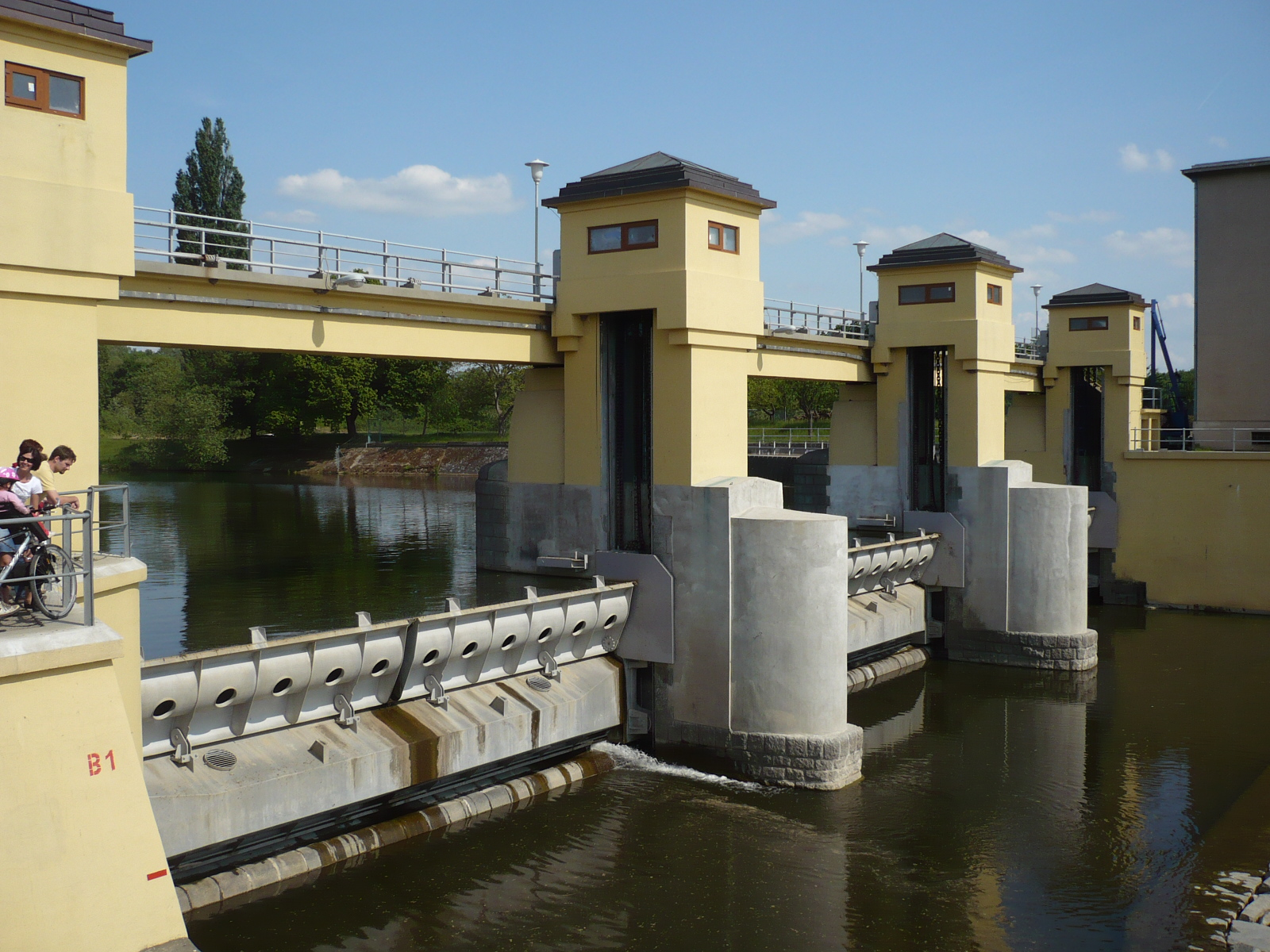 Hodonin - Dam on river Morava